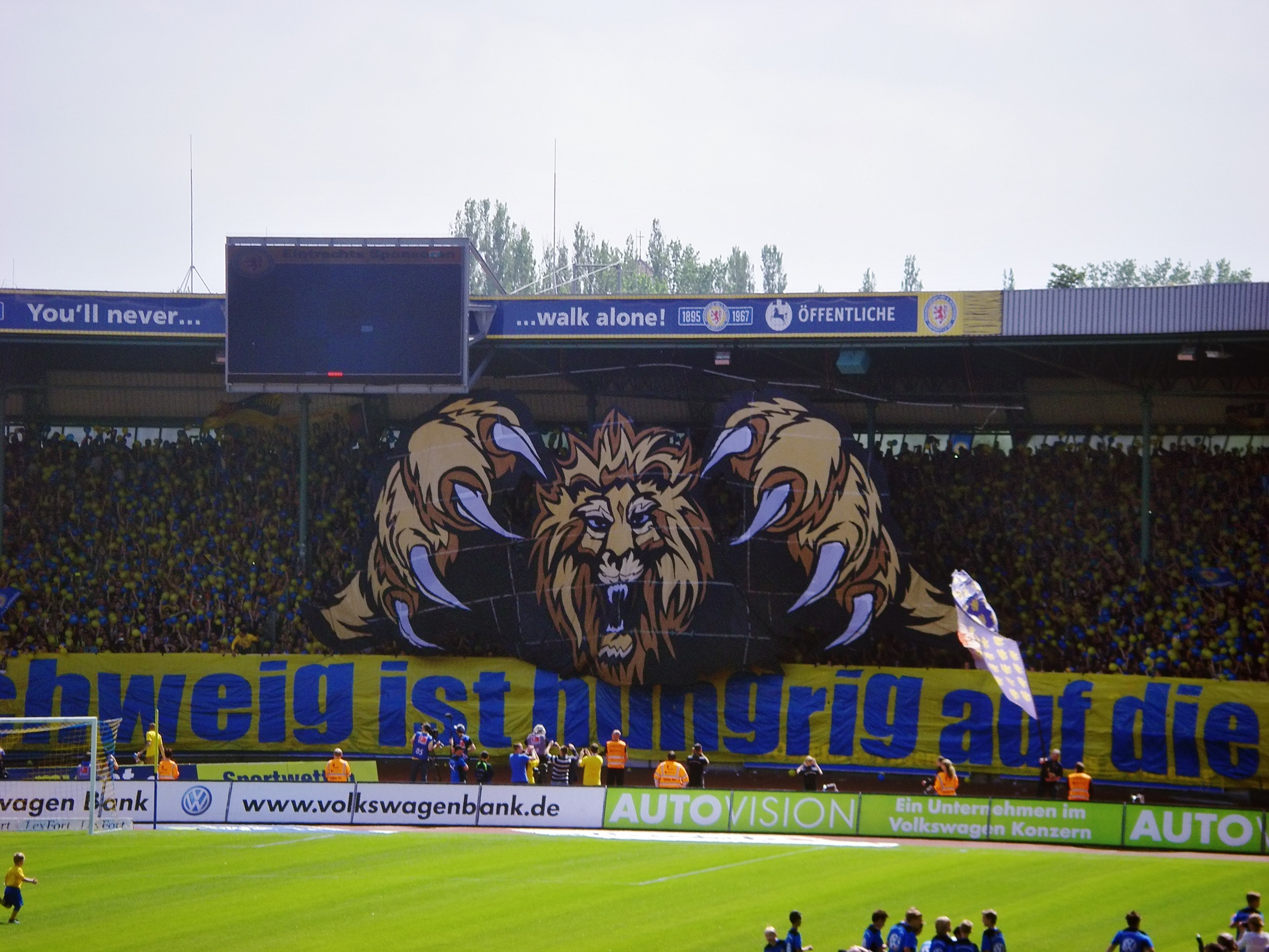 Braunschweig Lion choreography, presented by fans of Eintracht Braunschweig in their last match of the season 2012-13 versus FSV Frankfurt (2-2).